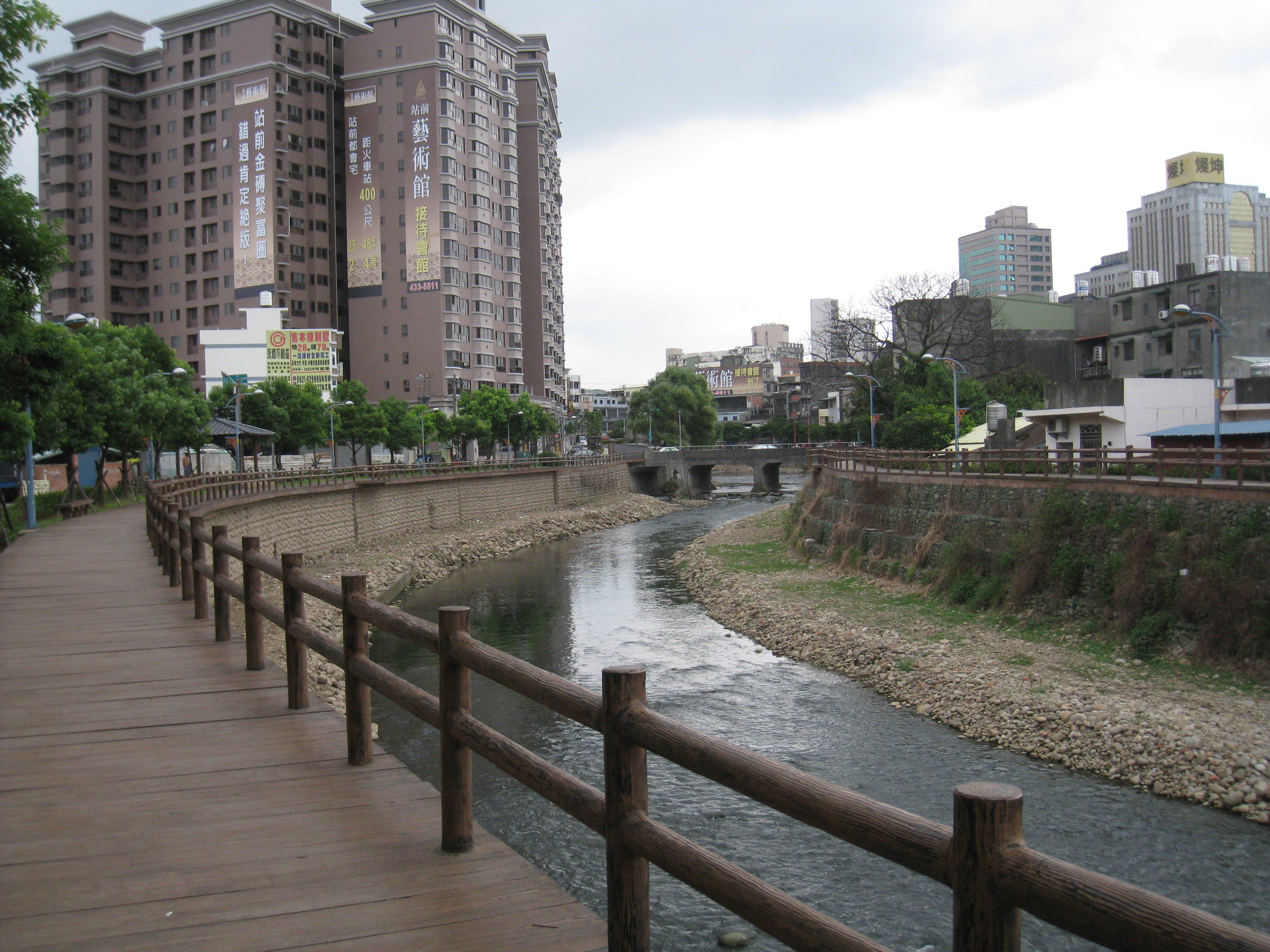 Jhongli Hsin-Jie Creek, Taiwan.